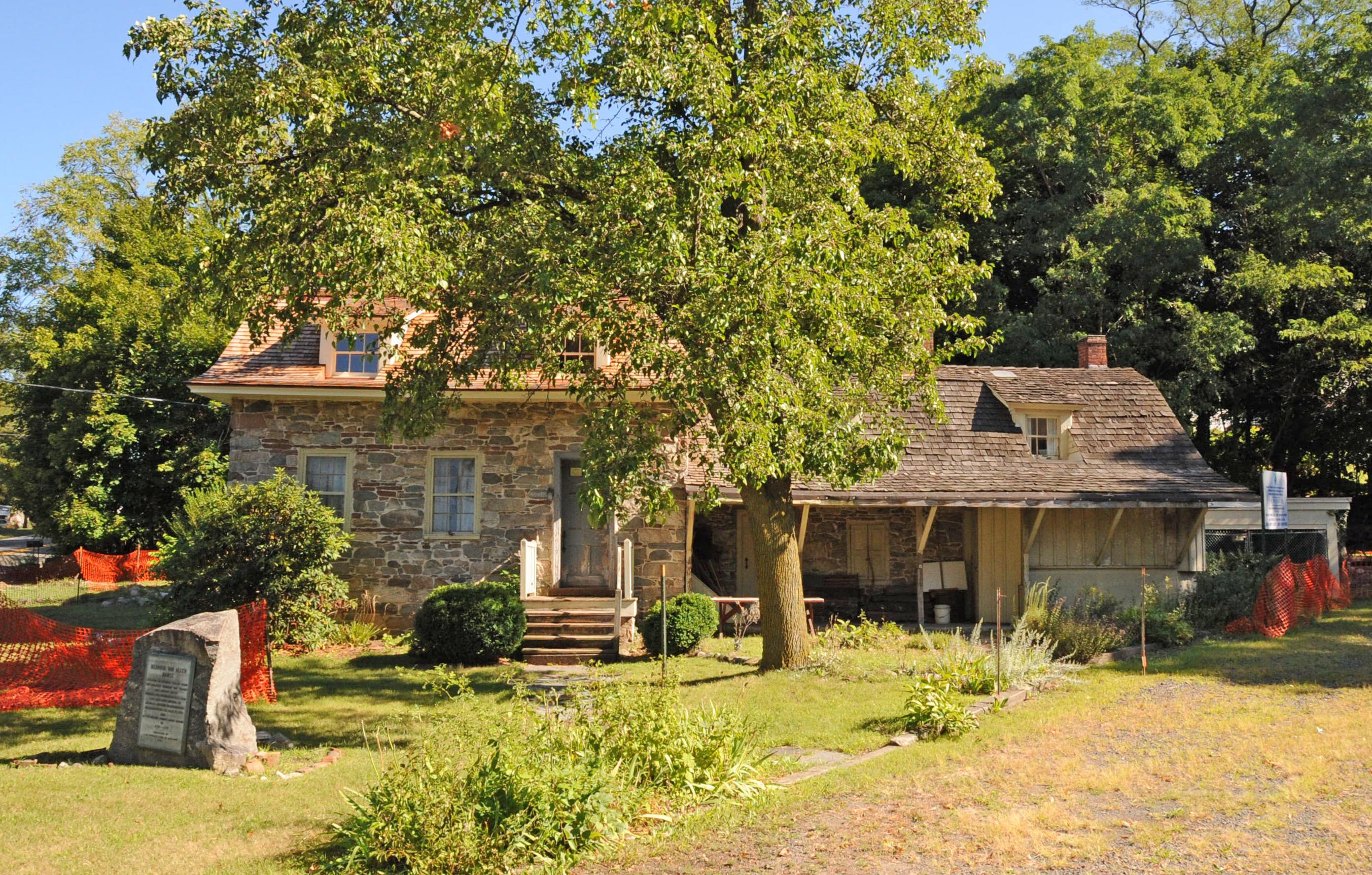 DUTCH COLONIAL HOUSE BUILT BEFORE THE REVOLUTIONARY WAR BUT USED BY GENERAL WASHINGTON JULY 14-15, 1777AS HIS HEADQUARTERS WHEN HE MOVED HIS TROOPS FROM MORRISTOEWN TO SMITH’S CLOVE, NY